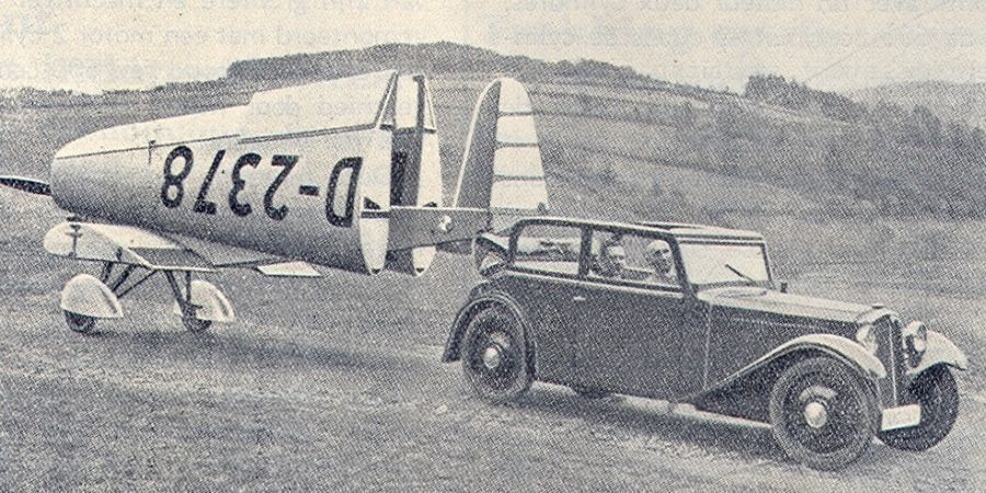 DKW Erla Me 5a photo from L'Aerophile September 1933